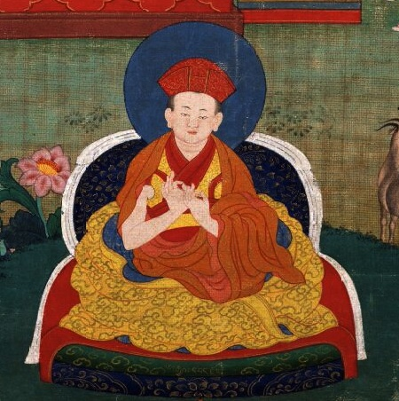 Kunga Peljor (b.1428 - d.1476) - 2nd Drukchen